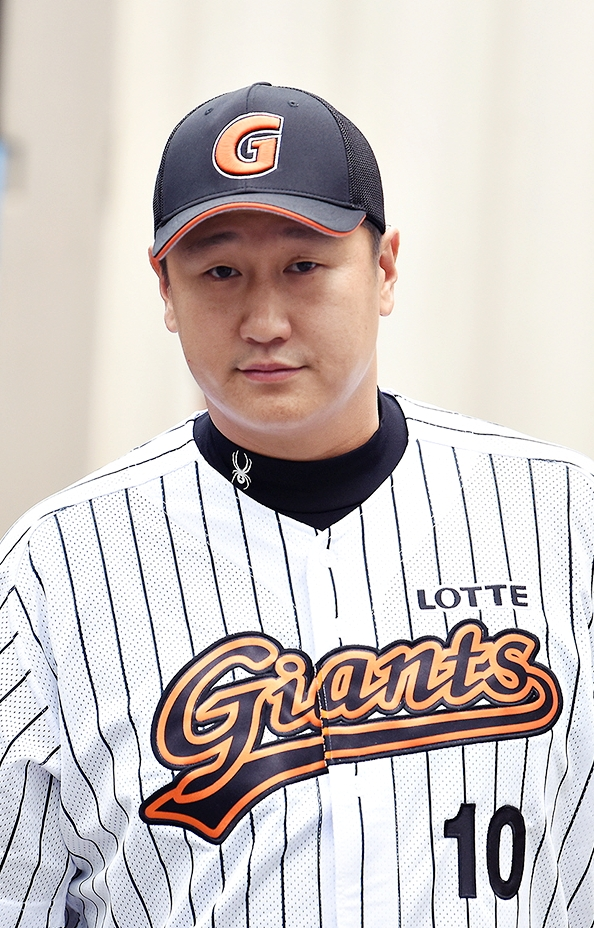 2017-03-27 KBO Mediaday 1 . Dae-ho Lee , Lotte Giants , №.10